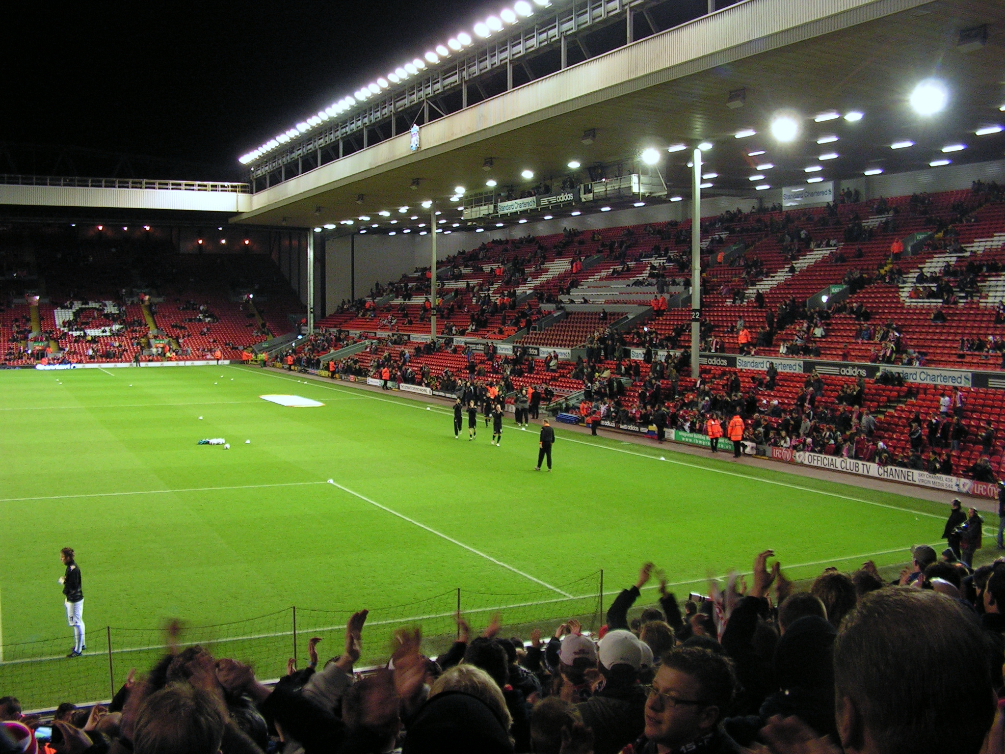 Trip Liverpool - FC Utrecht